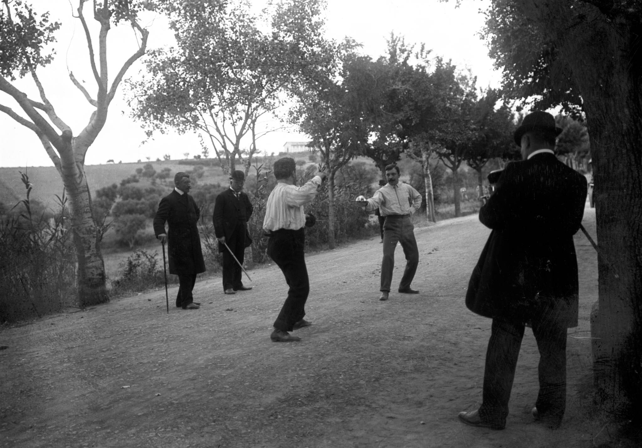 Afonso Costa and the Count of Penha Garcia engage in a duel (14 July 1908).